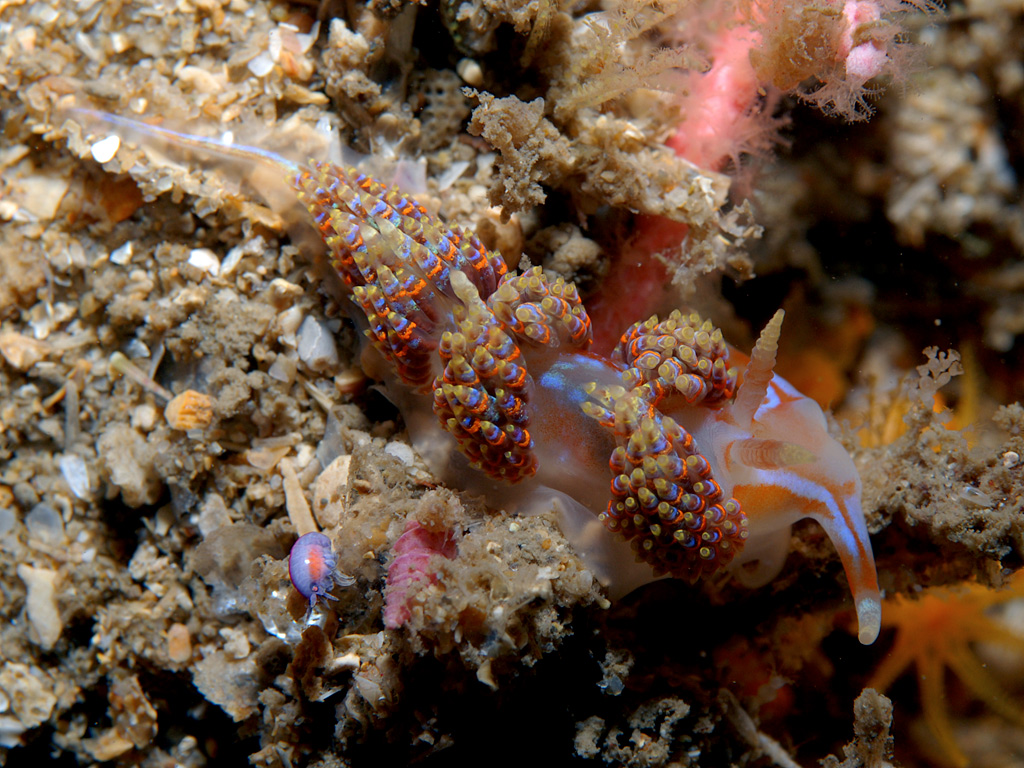 The nudibranch Godiva quadricolor, 40 mm long, Algoa Bay, South Africa, 18-20 m.